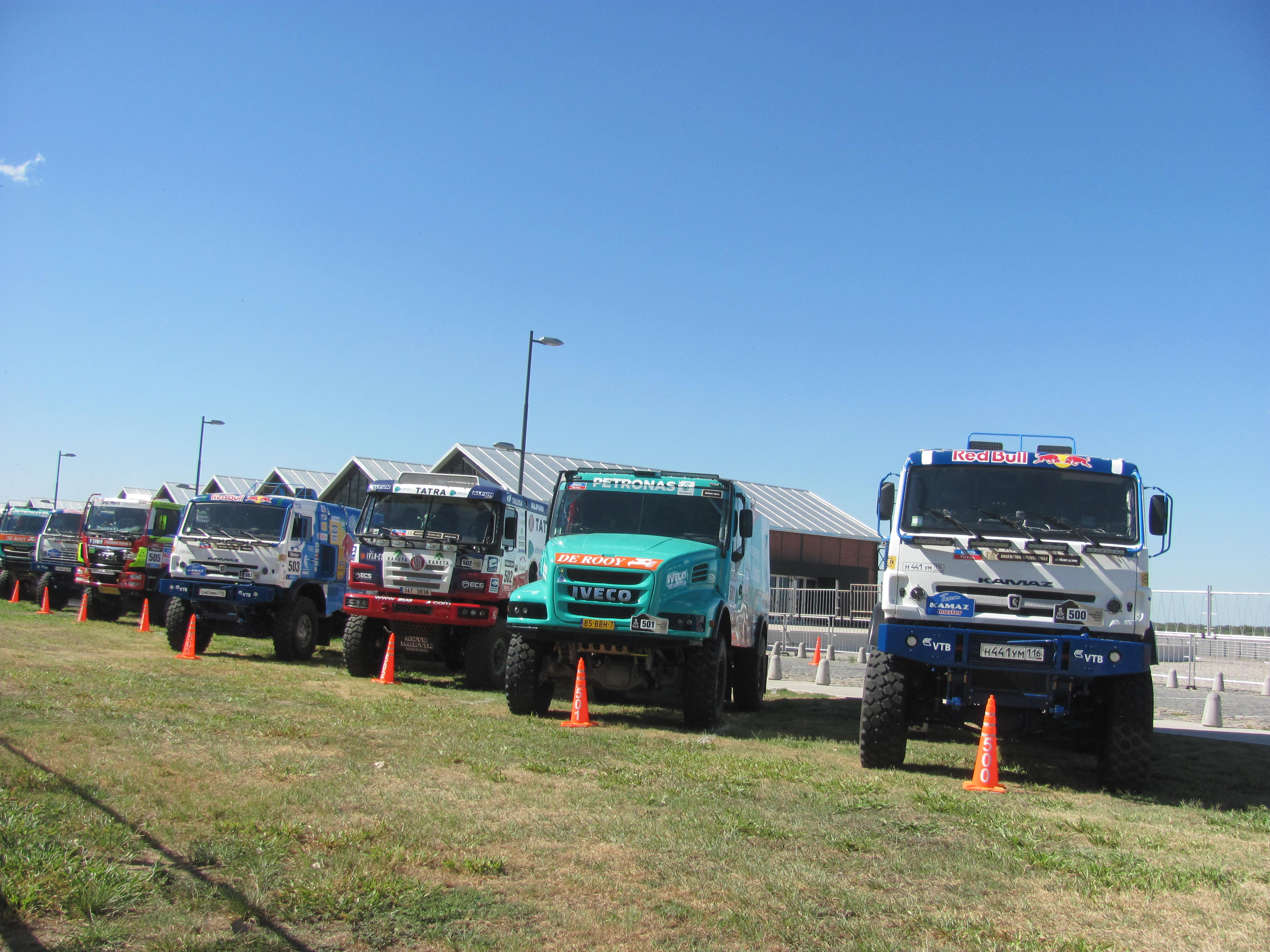 2014 Dakar Rally trucks before the start of the event